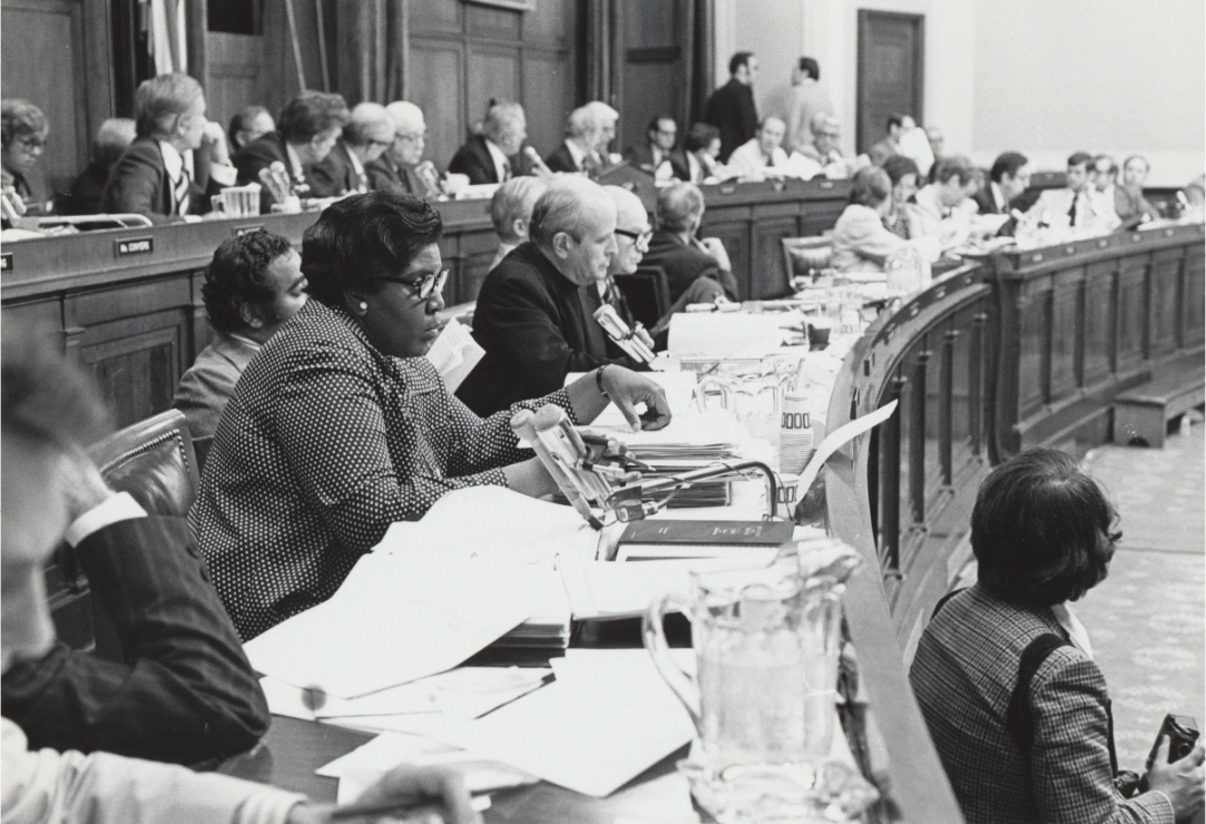 Barbara Jordan of Texas sat on the House Judiciary Committee as a freshman during the Watergate hearings.